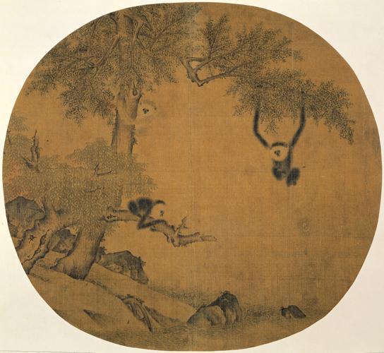 A painting by Yi Yuanji on a fan, depicting gibbons hanging in a tree